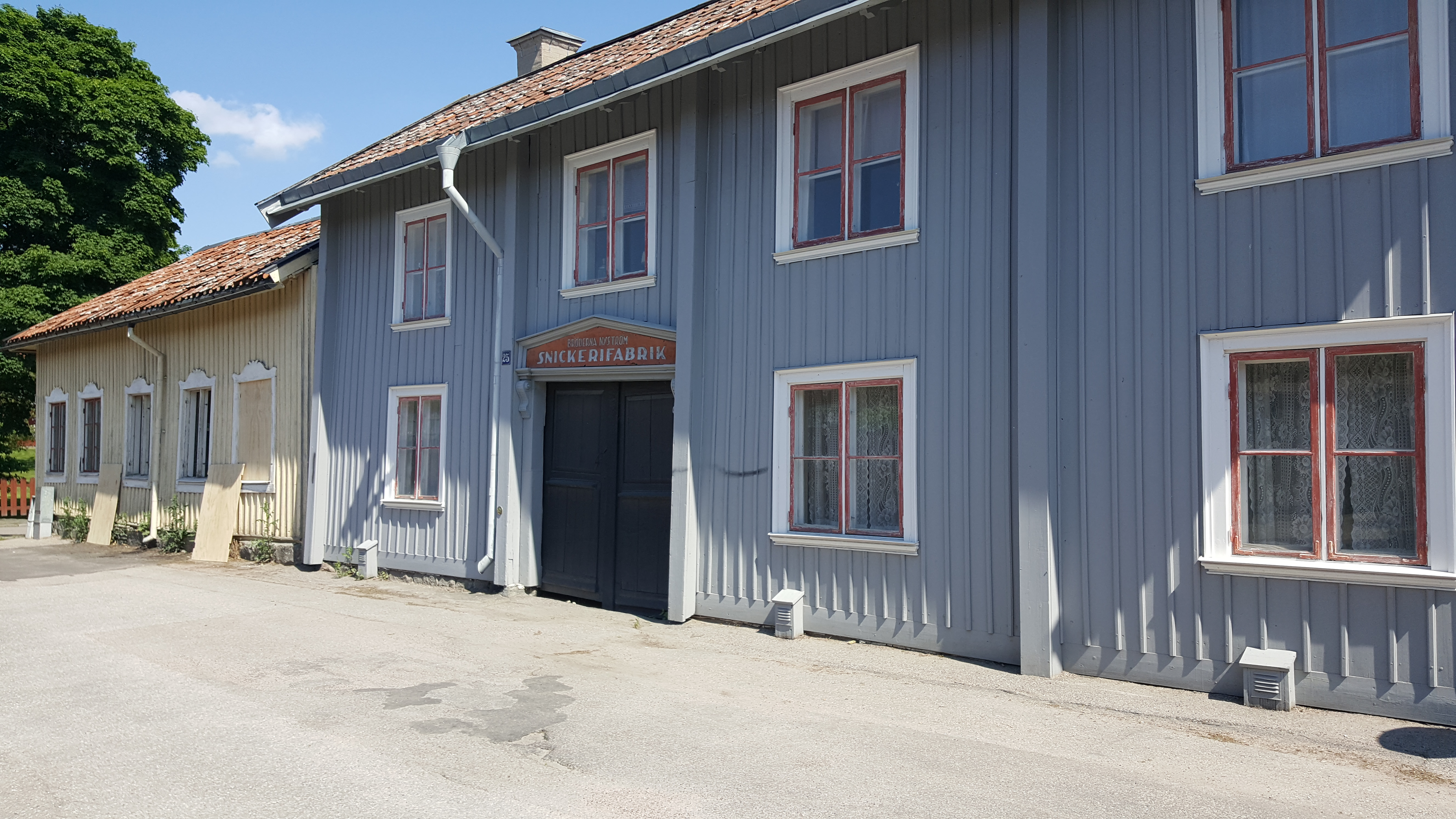 Nyströmska gården